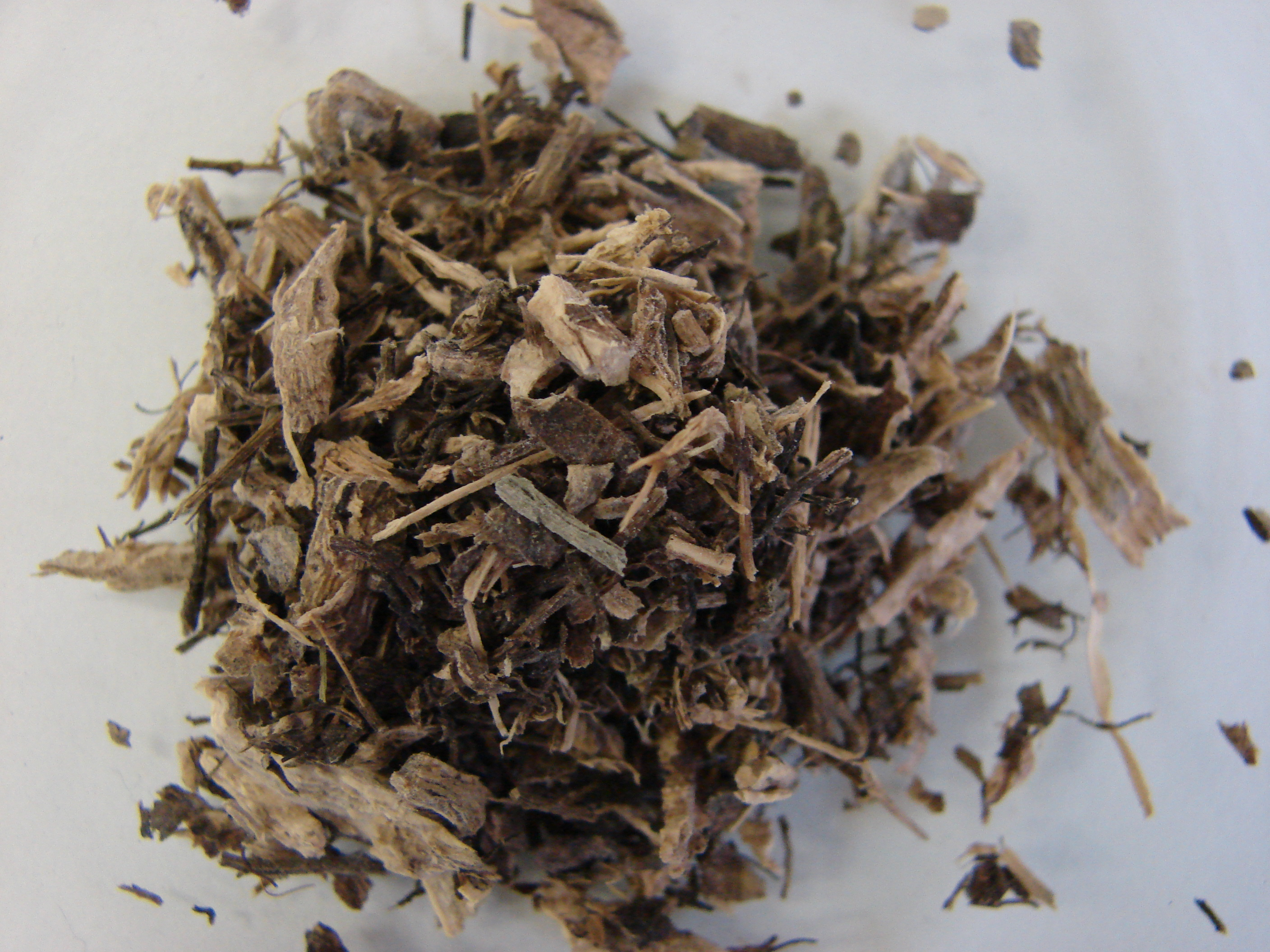 Echinaceae radix, Echinacea purpurea